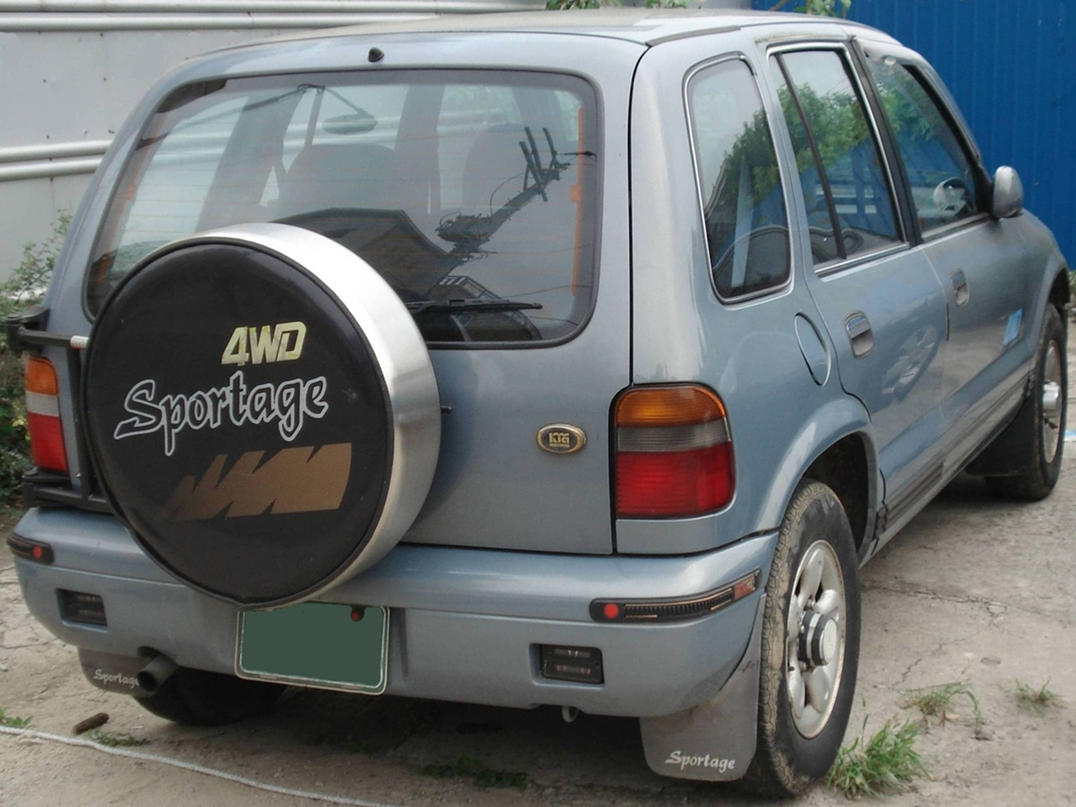 Kia Sportage